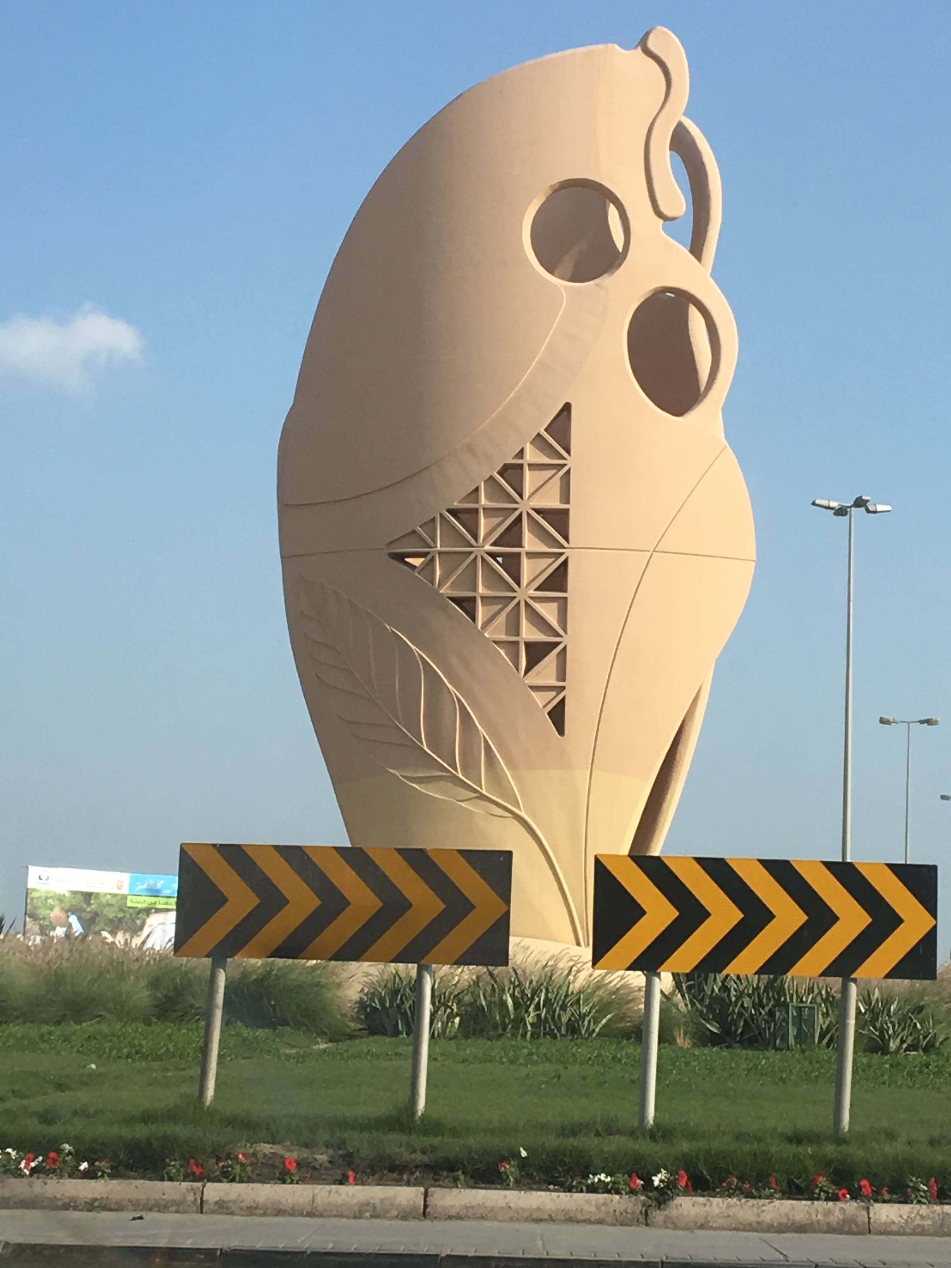 A’Ali’s Pottery Roundabout in November 2017